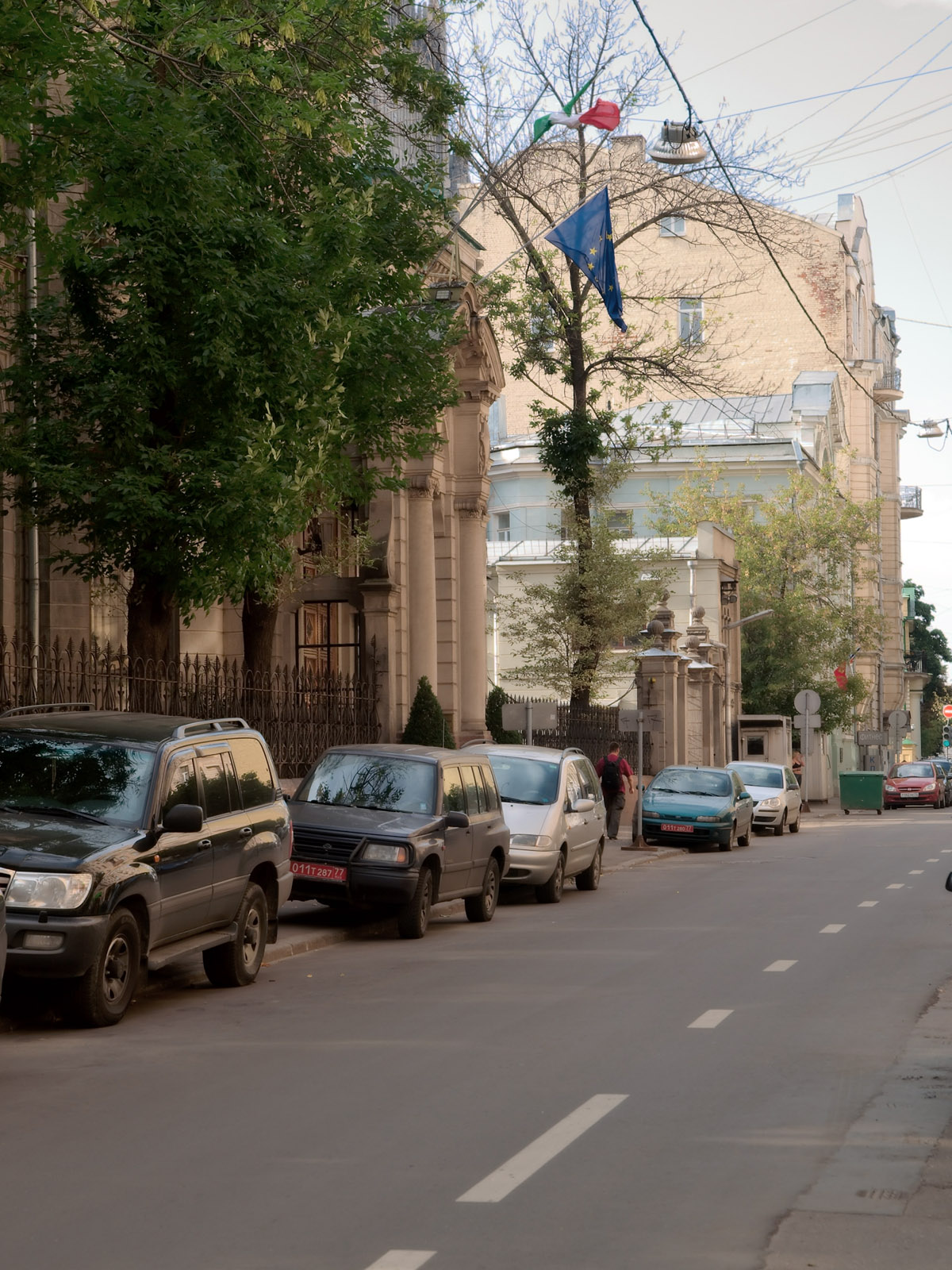 Embassy of Italy in Moscow (5, Denezhny Lane). A historical Berg mansion that in 1918 housed the German embassy and was the site of ambassador Mirbach's murder.